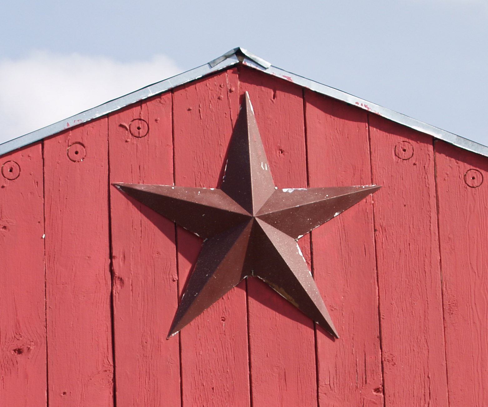 Three-dimensional star "barnstar" on a barn